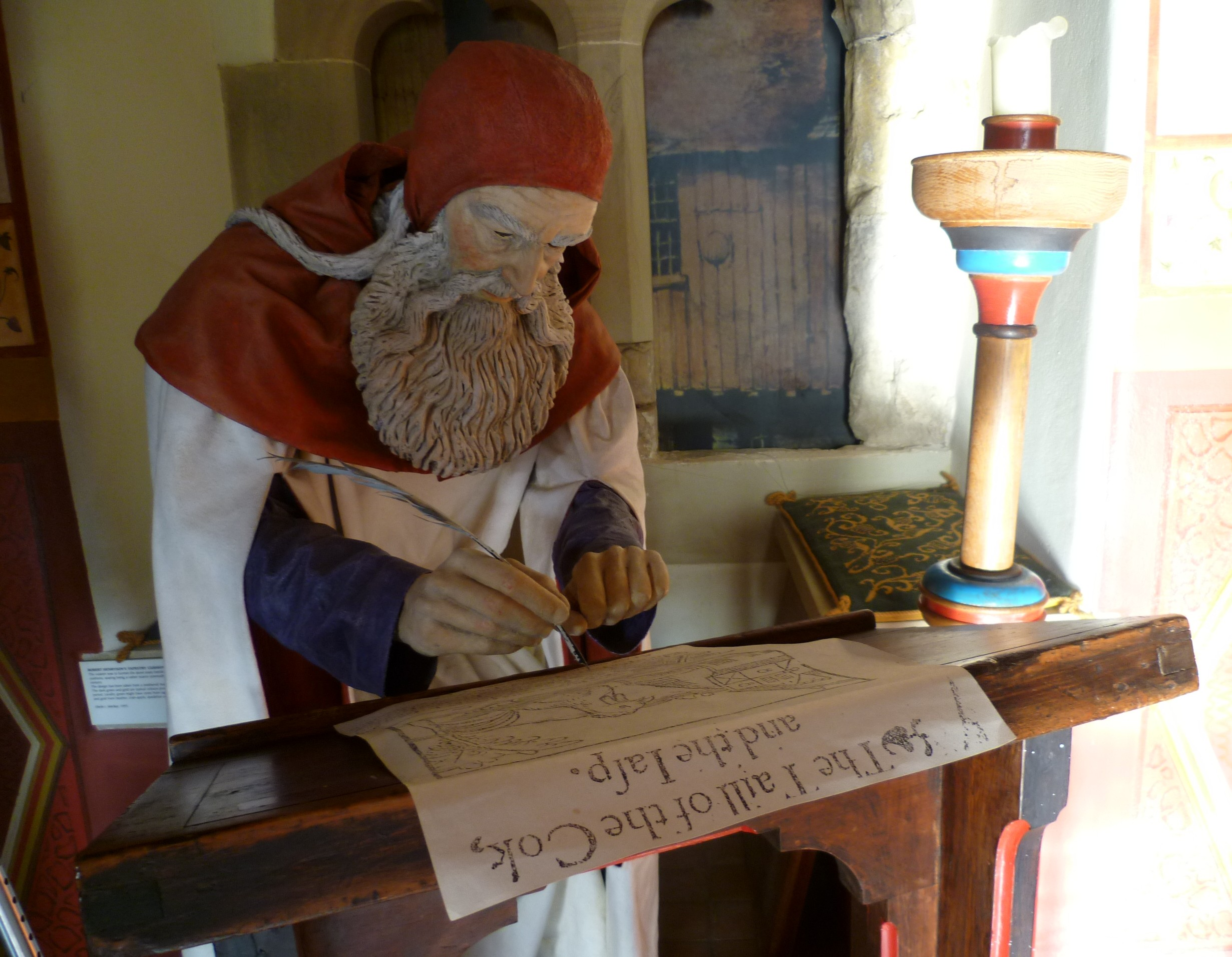 Robert Henryson, as portrayed in the Abbot House, Dunfermline